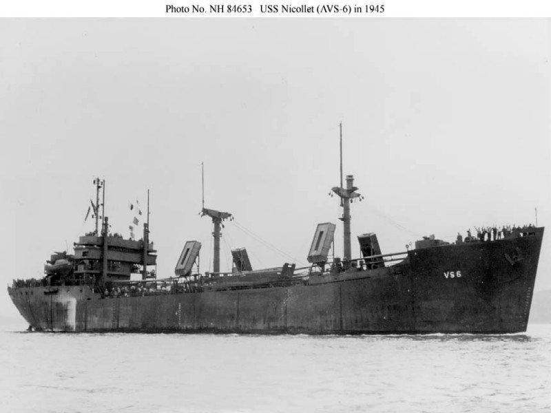 USS Nicollet (AVS-6) probably photographed underway in San Francisco Bay, CA., in 1945. US Naval History and Heritage Command photo # NH 84653.